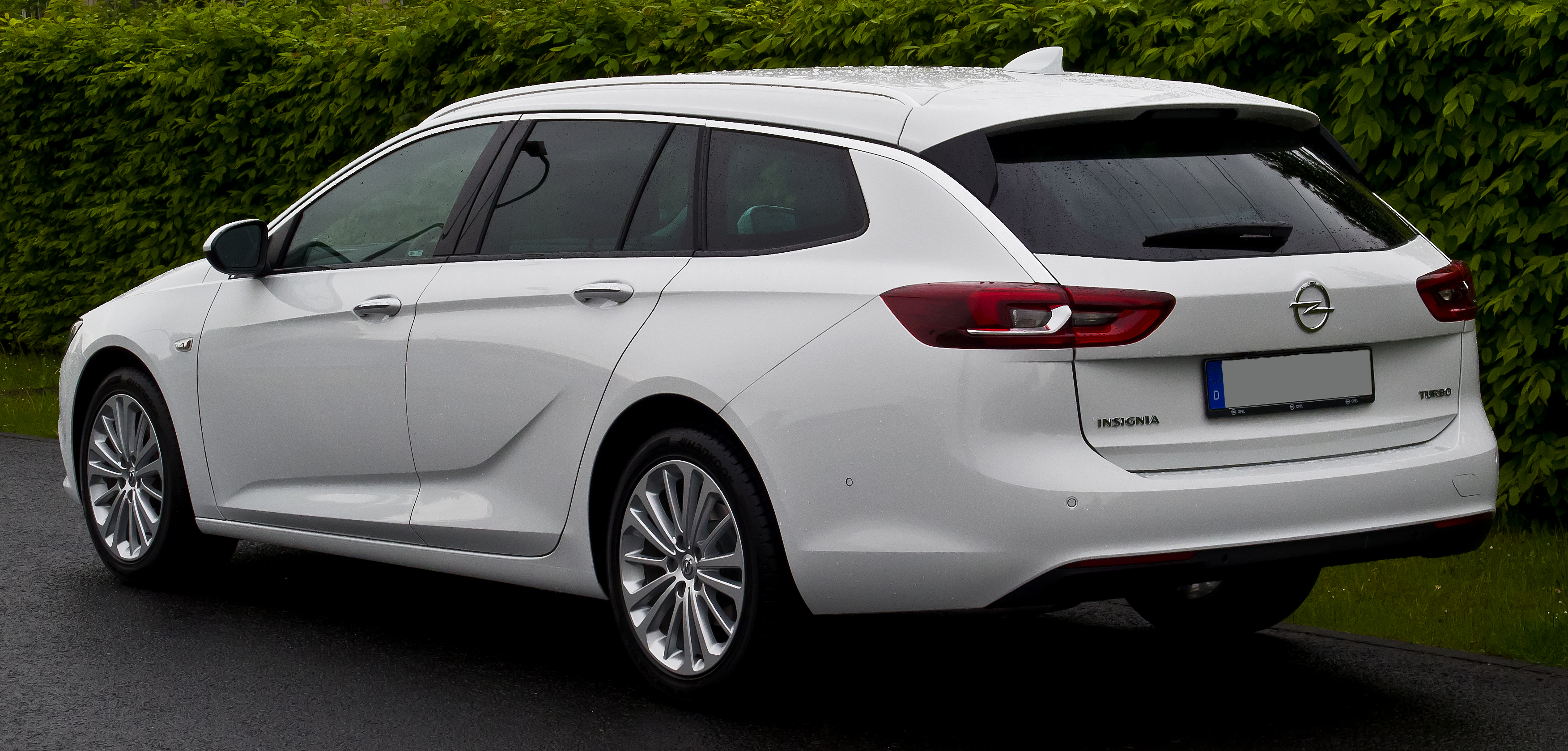 Opel Insignia Sports Tourer 1.5 DIT Innovation (B)